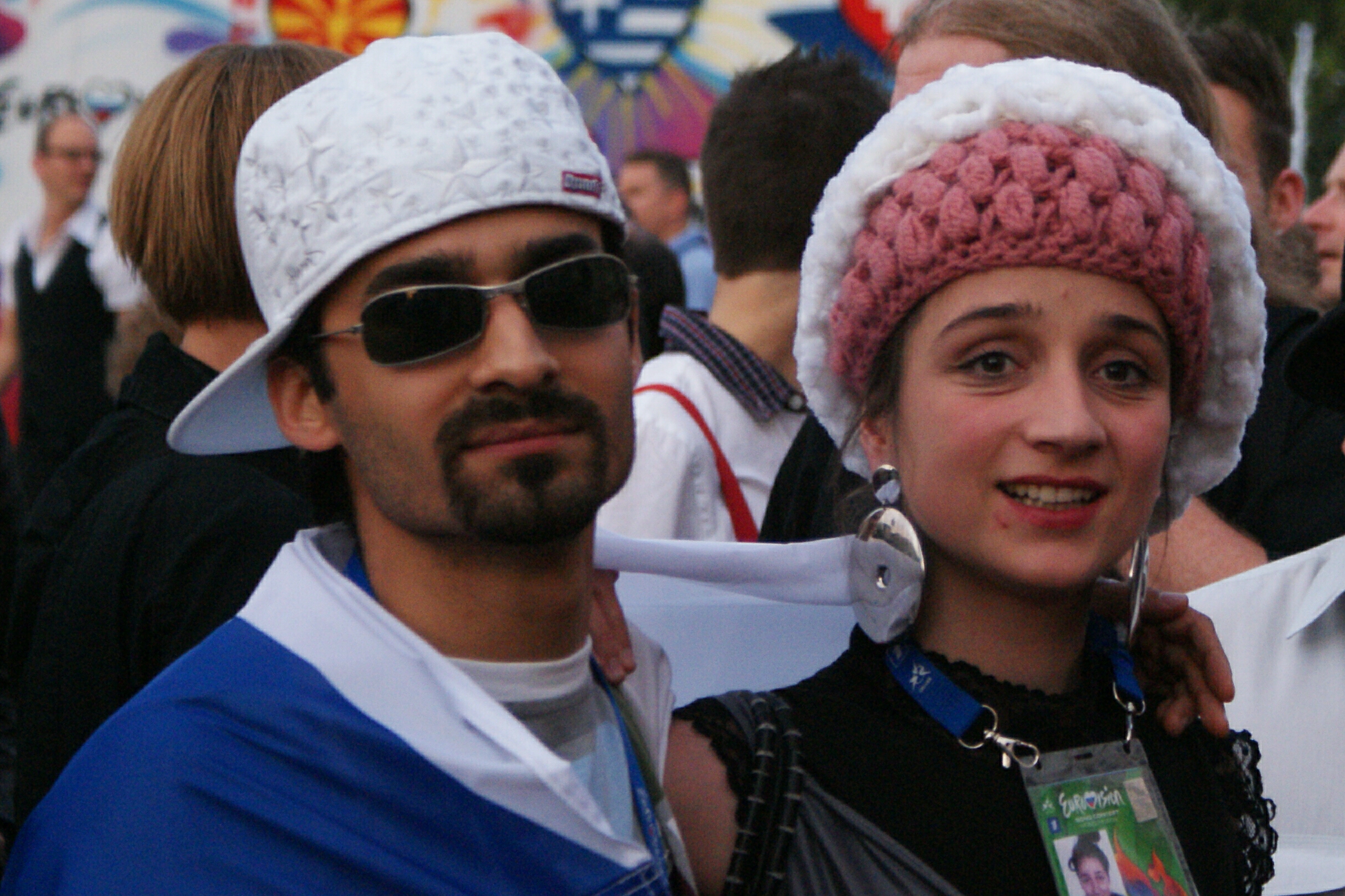 Radoslav Banga & Noemi Fialová (Gipsy.cz)